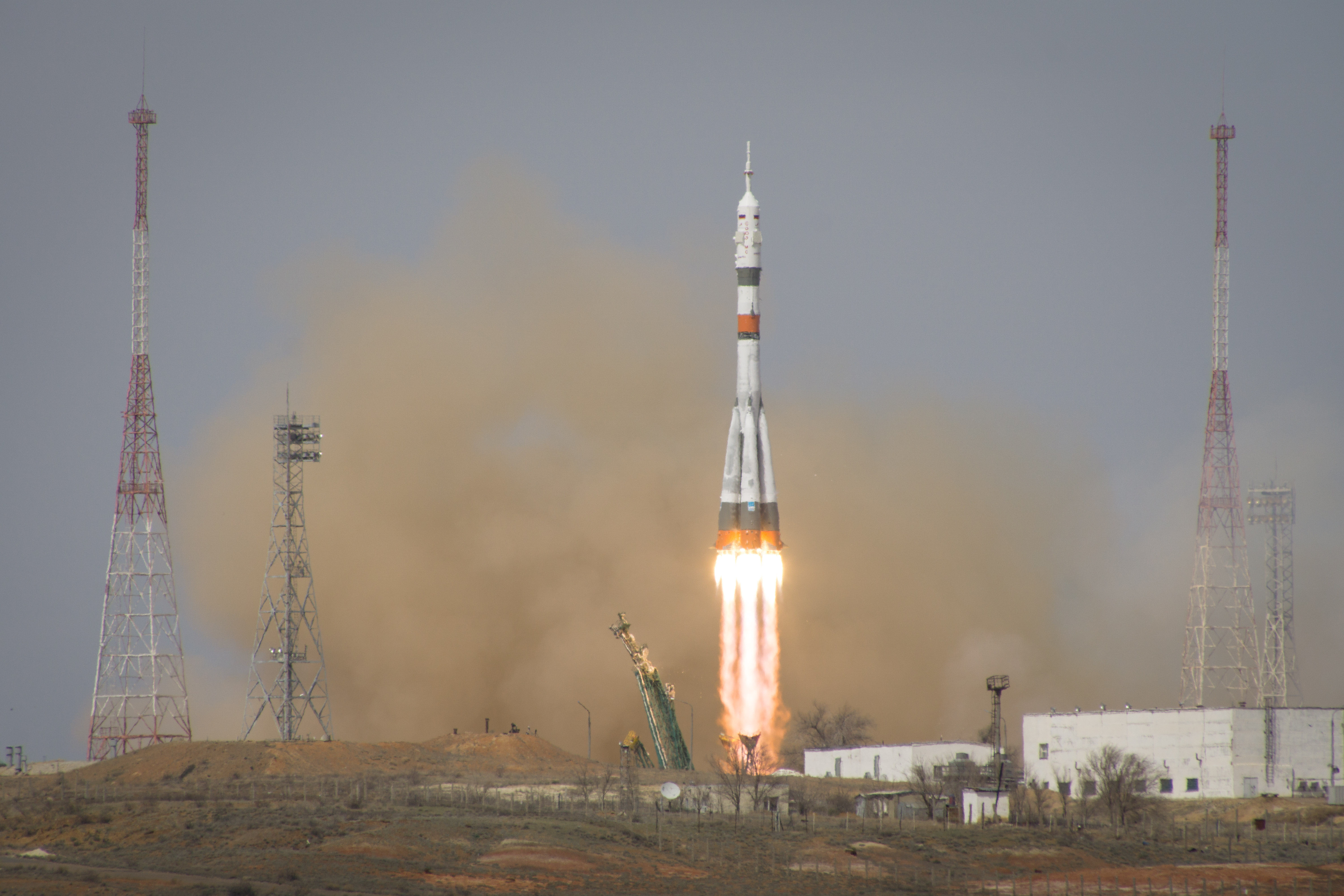 Expedition 63 Launch - The Soyuz MS-16 lifts off from Site 31 at the Baikonur Cosmodrome in Kazakhstan Thursday, April 9, 2020 sending Expedition 63 crewmembers Chris Cassidy of NASA and Anatoly Ivanishin and Ivan Vagner of Roscosmos into orbit for a six-hour flight to the International Space Station and the start of a six-and-a-half month mission.